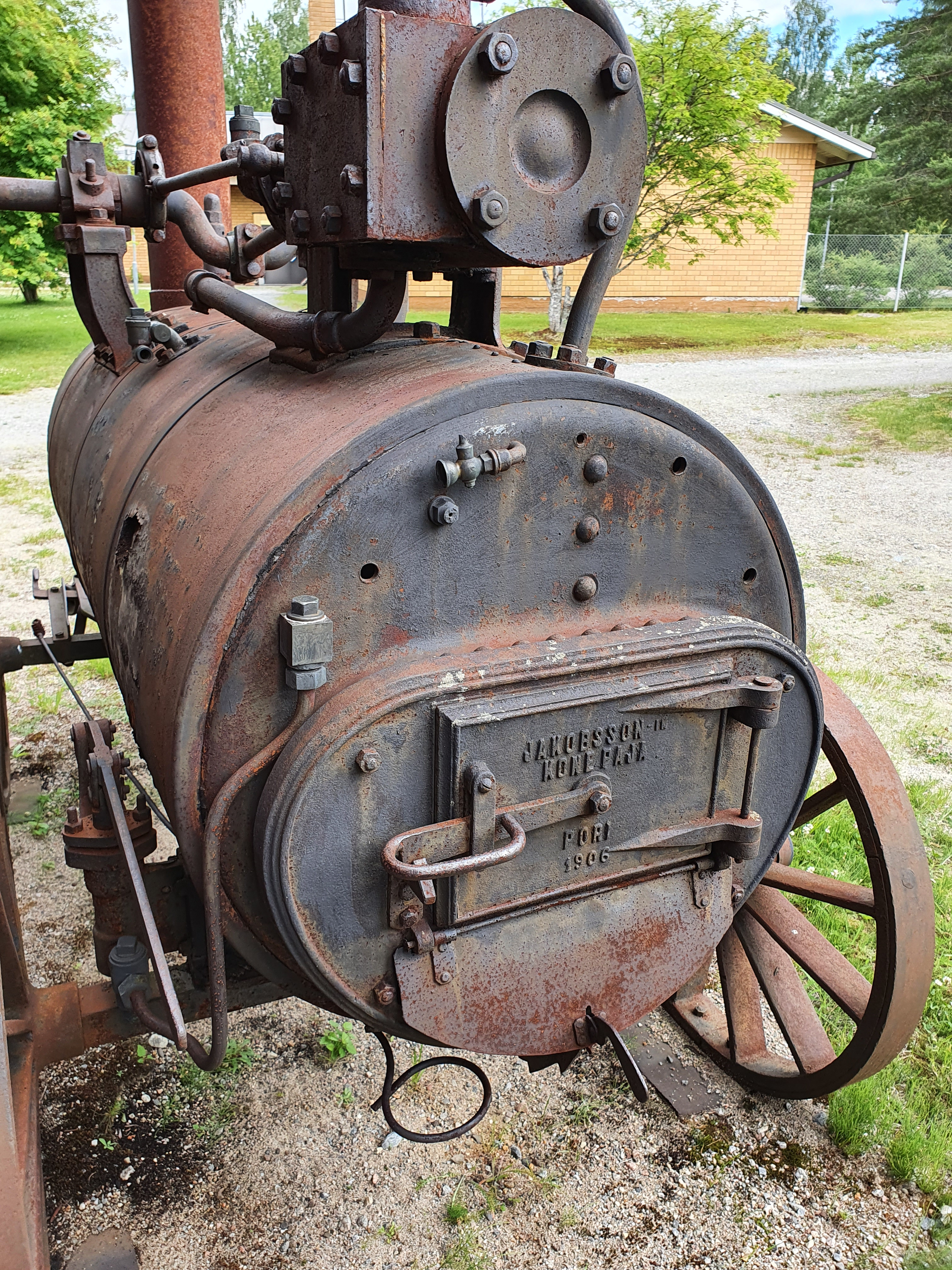 A steam-powered locomobil built by Jakobsson's factory in Pori, Finland.